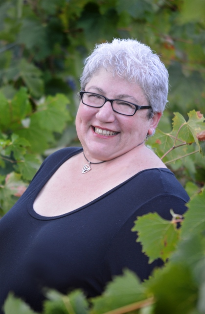 Author Jeri Westerson